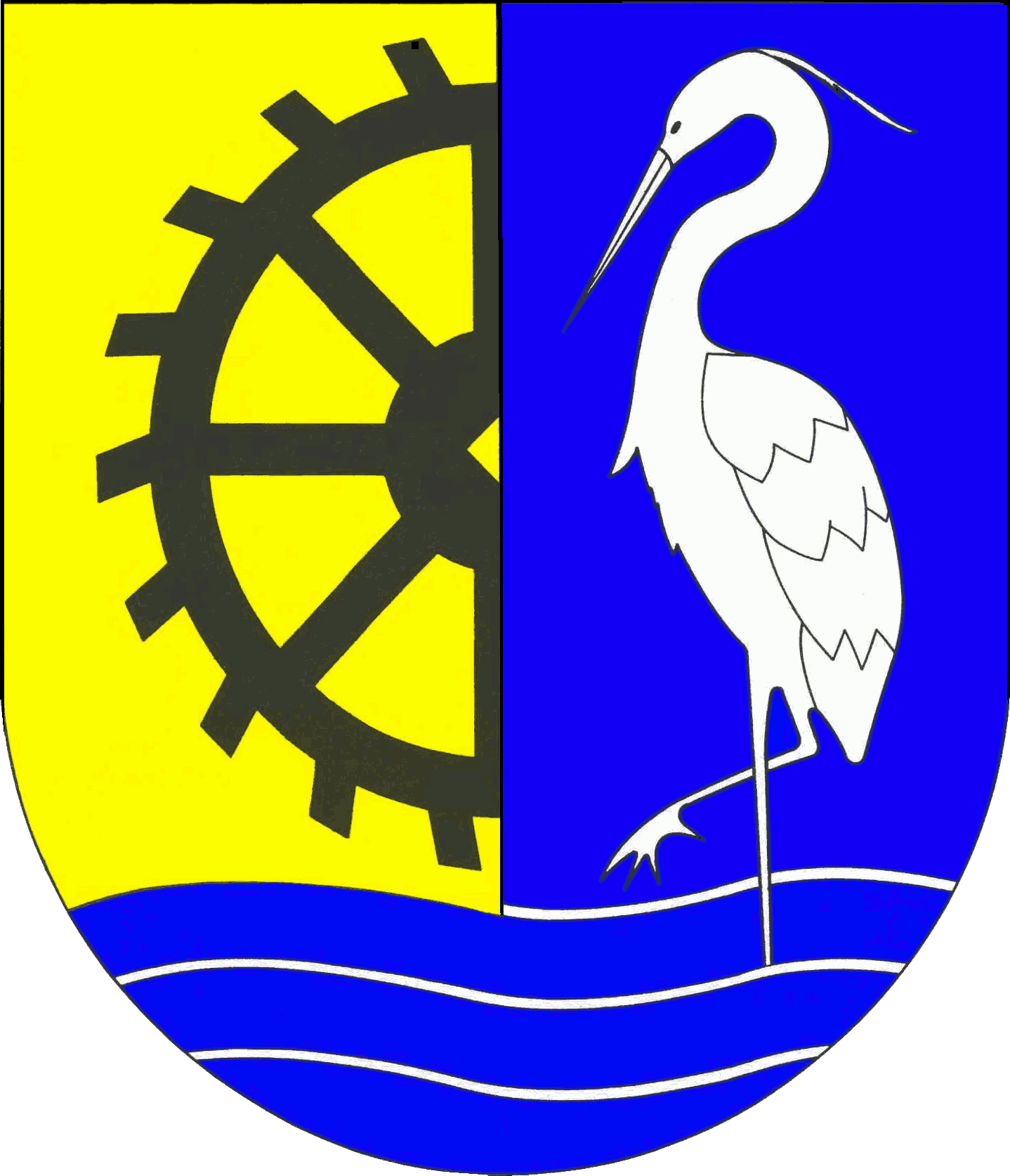 Coat of arms of the municipality Meyn in Schleswig-Holstein, Germany